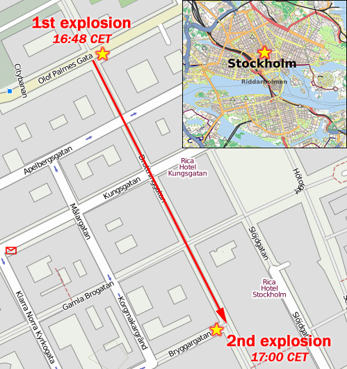 Map of the 2010 Stockholm bombings